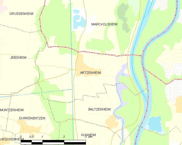 Map of French municipality